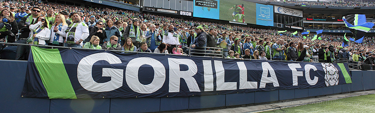 This is the banner that Gorilla FC, A Seattle Sounders FC Supporters group, displays.